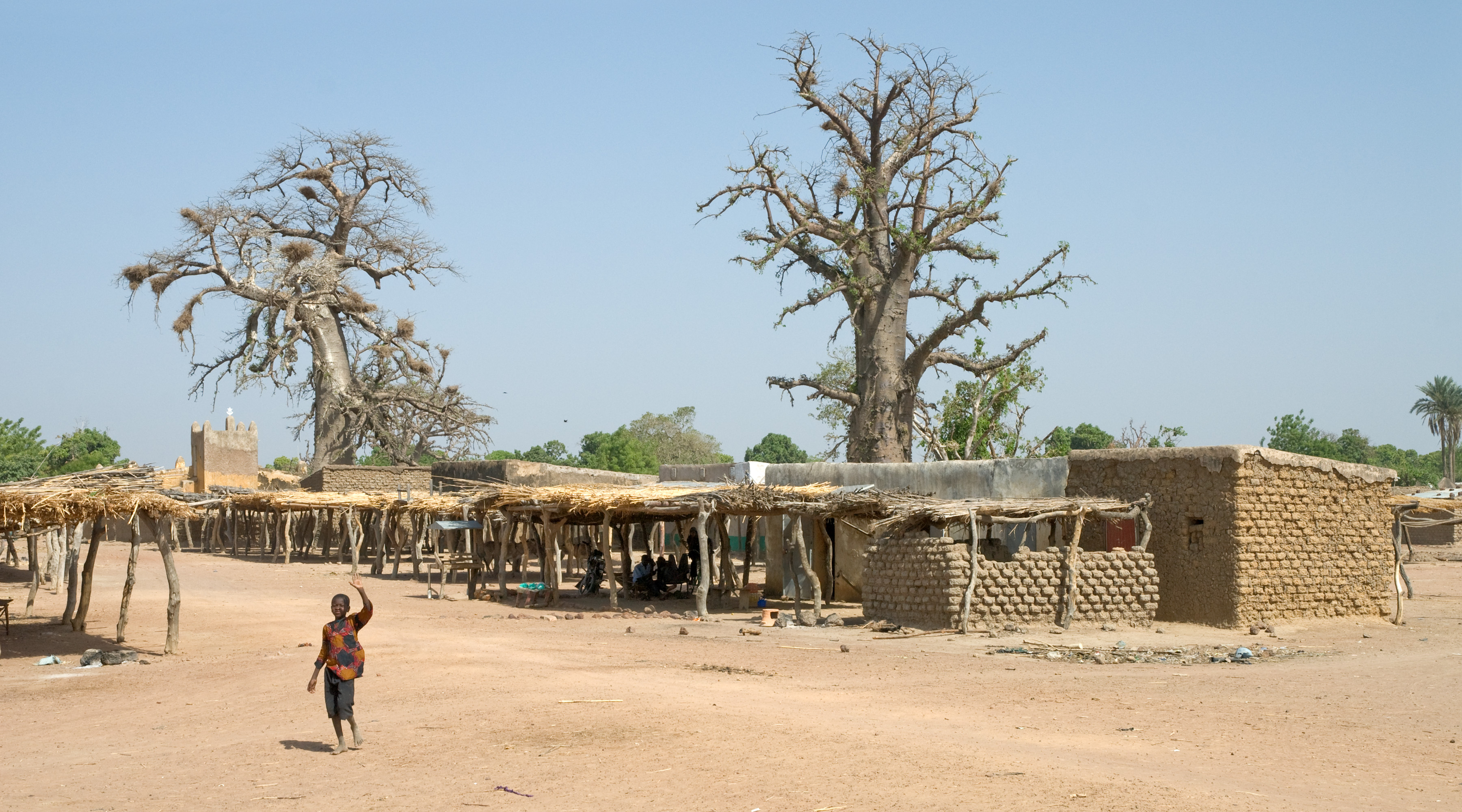 Village scene with mosque, market place and baobab trees at Kani (Nafanga Commune, Koutiala Cercle, Sikasso Region), Mali (April 2014)